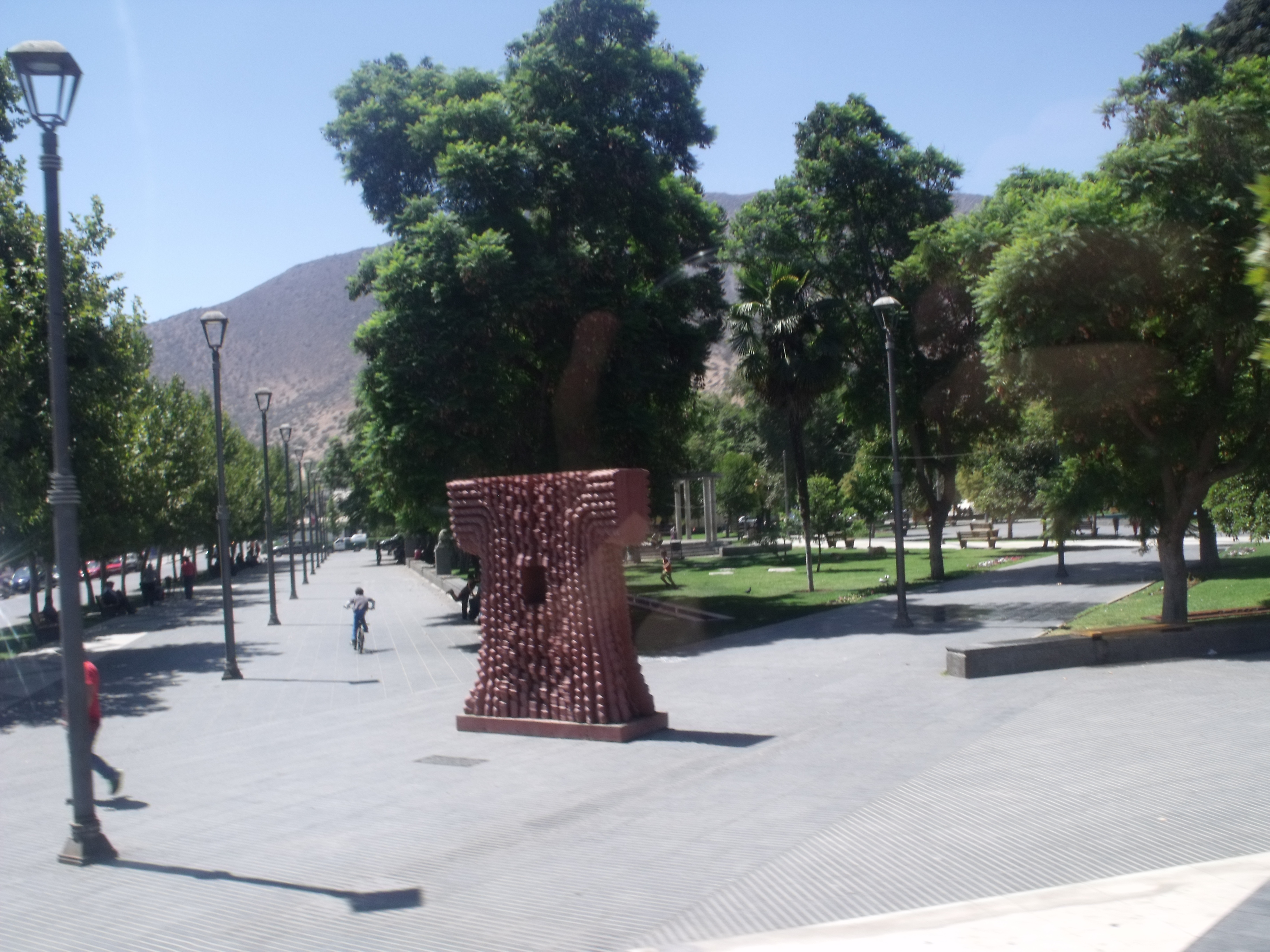 The heart and main public space of the city. It has 17,000 m2 of surface, which transforms it into the wider the Coquimbo Region and one of the country's largest square. In 2007, renovation work is performed, which managed to give a more modern look, with a large central fountain, benches with engraved coat of the commune, and predominance of black and white. Its name is in honor of Montepío Márquez, Juan Nicolás de Agruirre and Barrenechea, Chilean politician and philanthropist, from the eighteenth century.